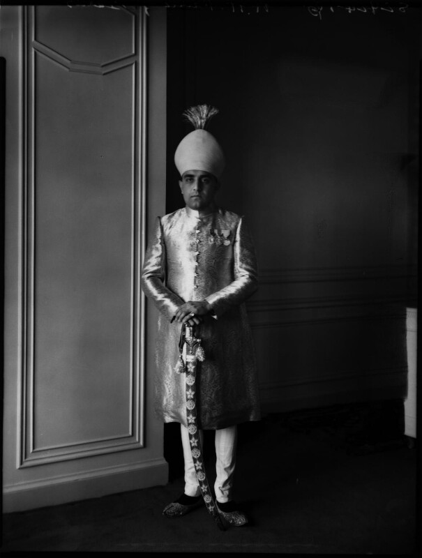 Nawab Azam Jah